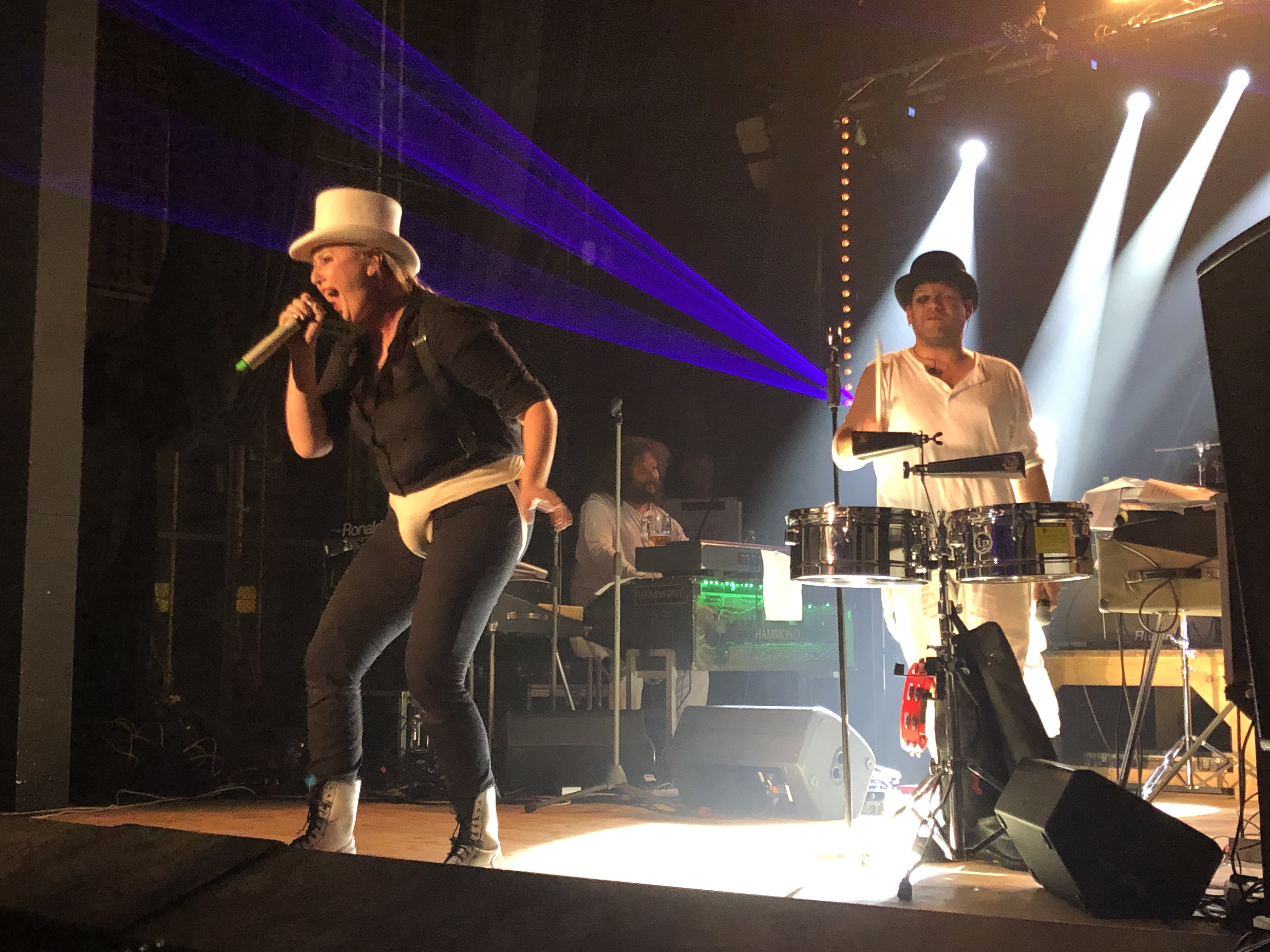 Czech funky band Monkey Business performing during the Bad Time For Gentlemen Tour in Valašské Meziříčí, Vsetín District, Zlín Region, Czech Republic, 25. 10. 2019